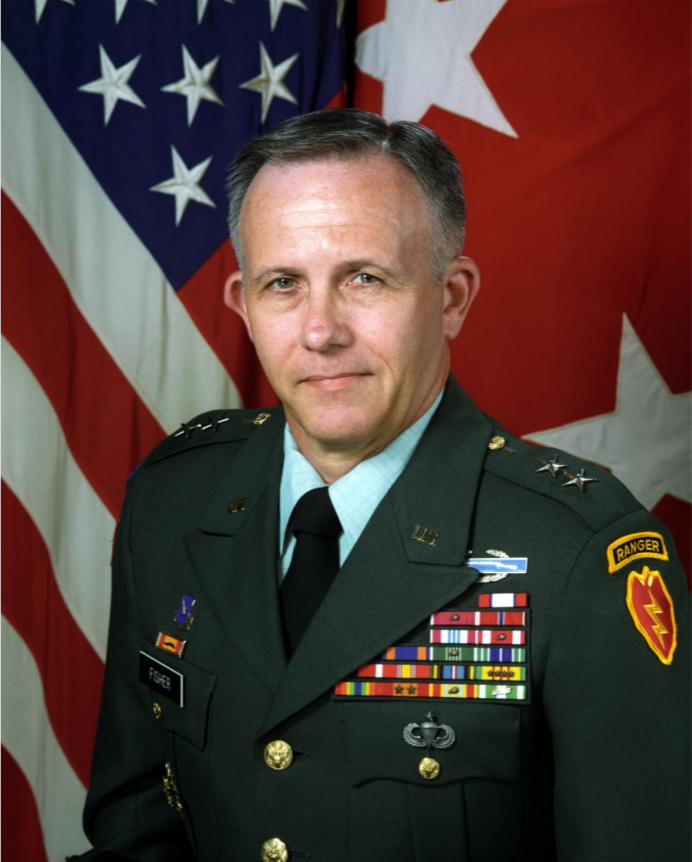 Major General George A. Fisher Jr., commander of the 25th Infantry Division (1993-1995)